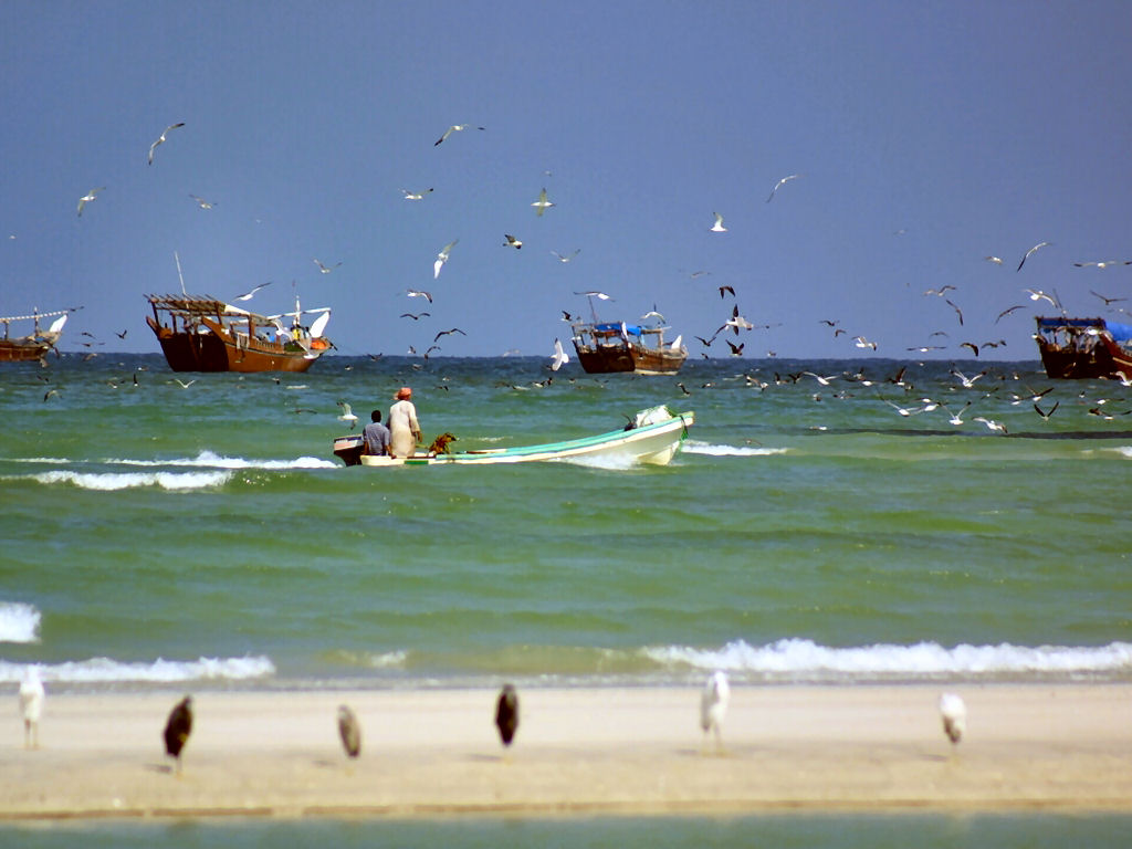 Dugm, Oman